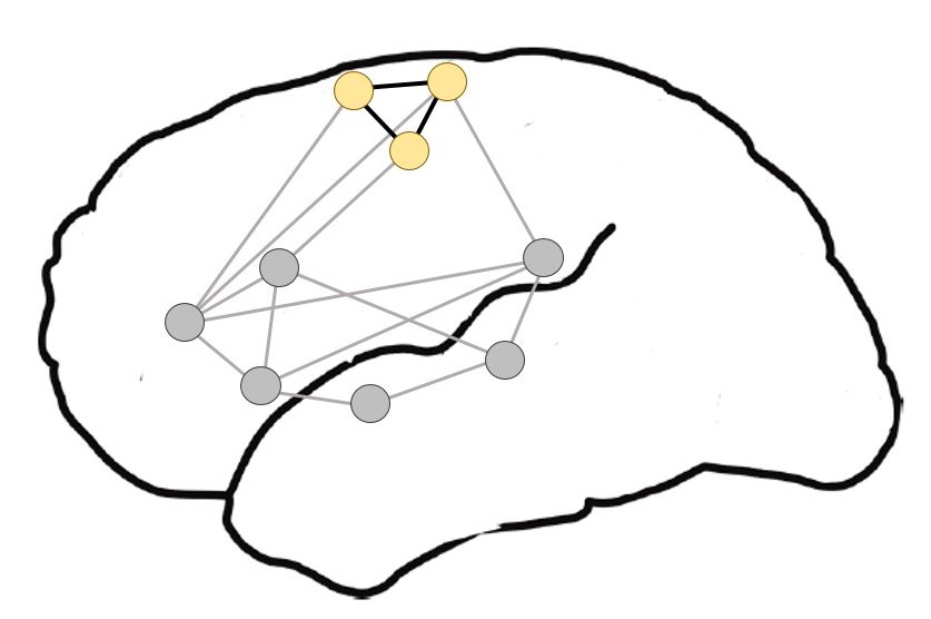 Adapted from Shebani et al. (2013). Gray represents the language comprehension network, which is connected to the motor representation of the arm (yellow) when arm words are being comprehended.